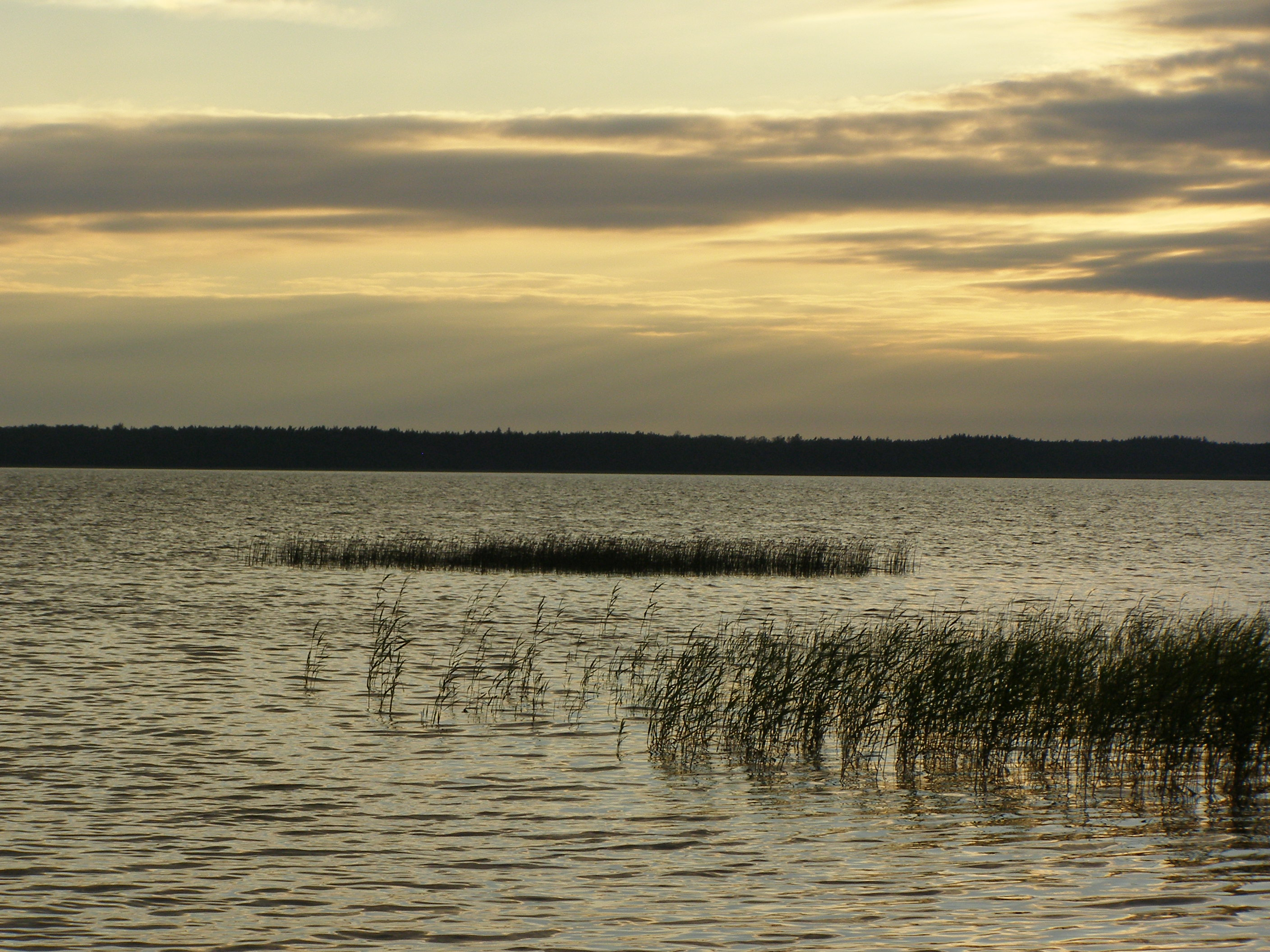 Hullo bay